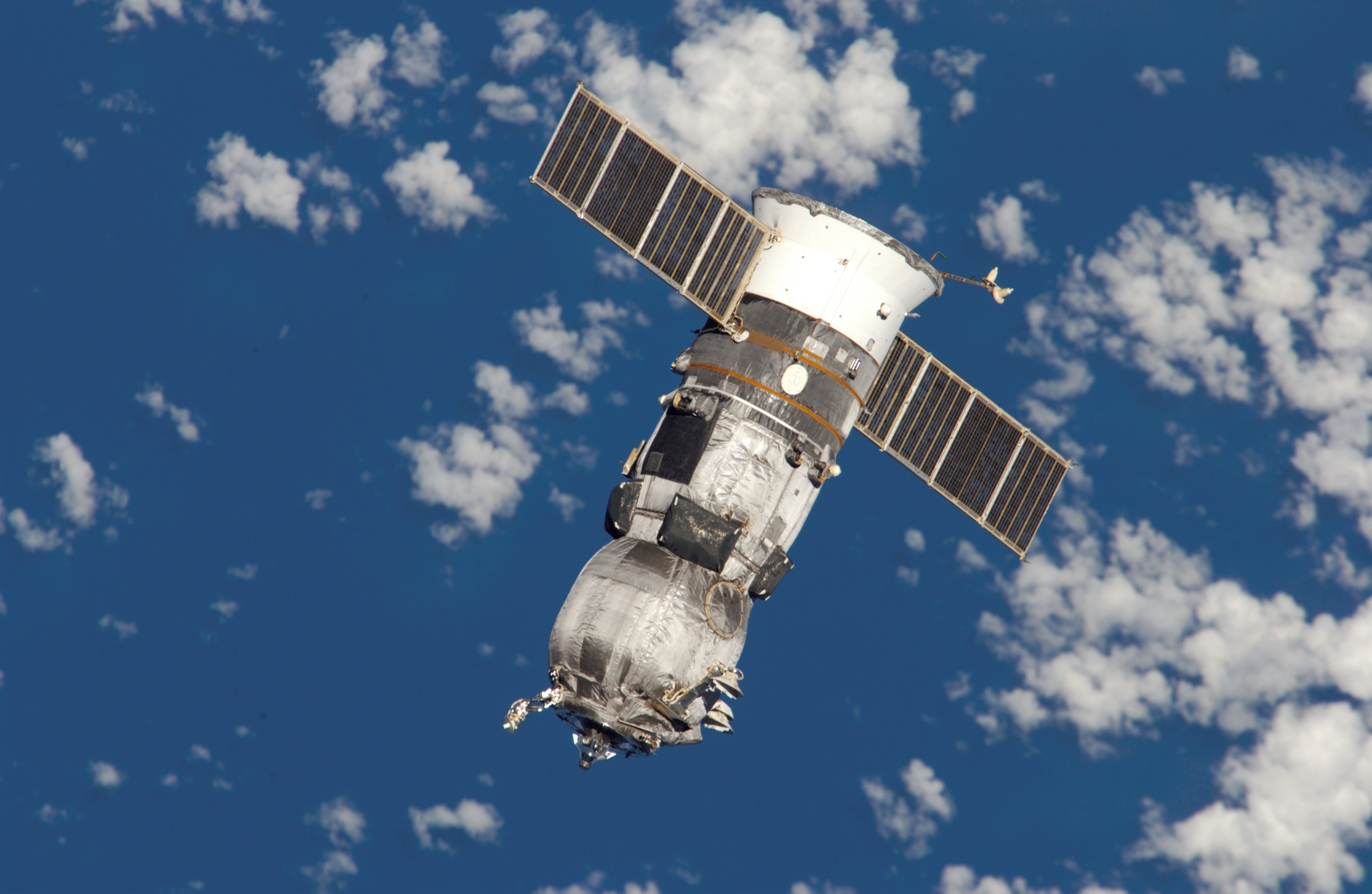 Progress 17 supply vehicle departs from the International Space Station, carrying its load of trash and unneeded equipment to be deorbited and burned up in Earth’s atmosphere